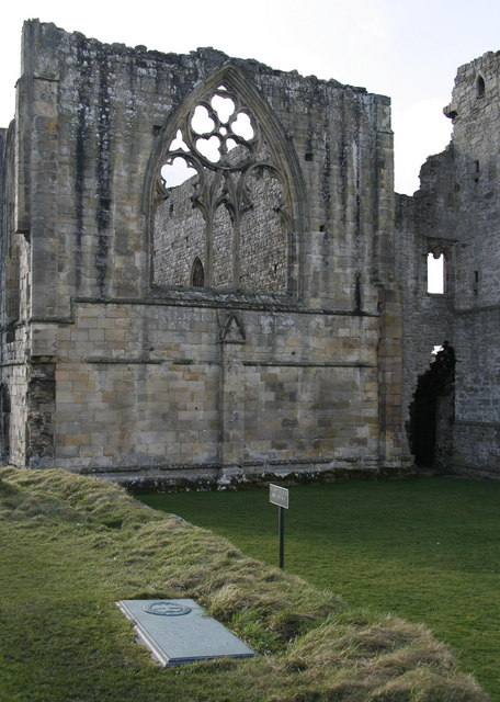 Easby Abbey The inscription on the marker reads; In Remembrance of Evelyn Kathleen James elder daughter of Arthur Charles 4th Duke of Wellington and wife of Robert younger son of Walter Henry 2nd Baron Northbourne, born 30th July 1873 died 19th January 1922.